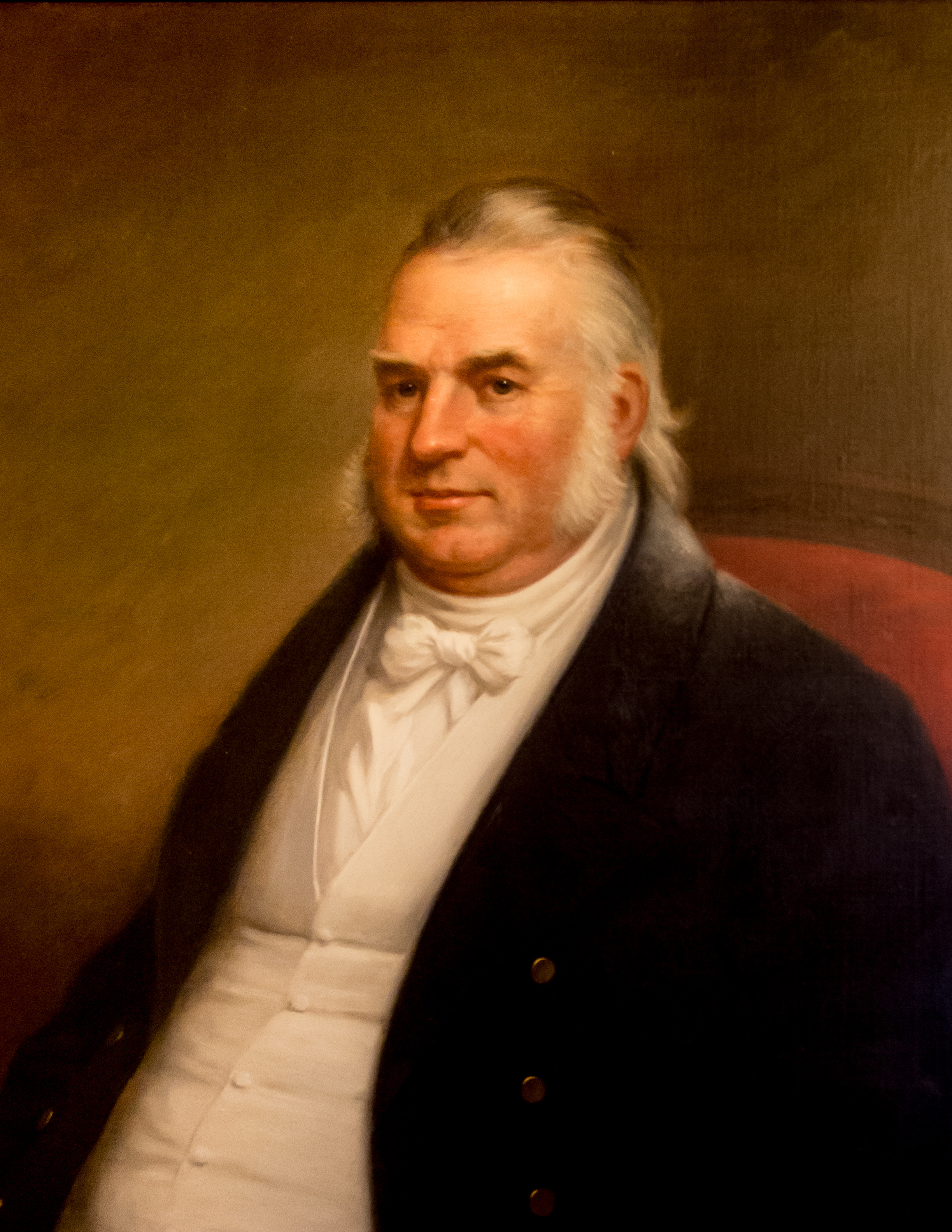 James Fenner (1771-1846)